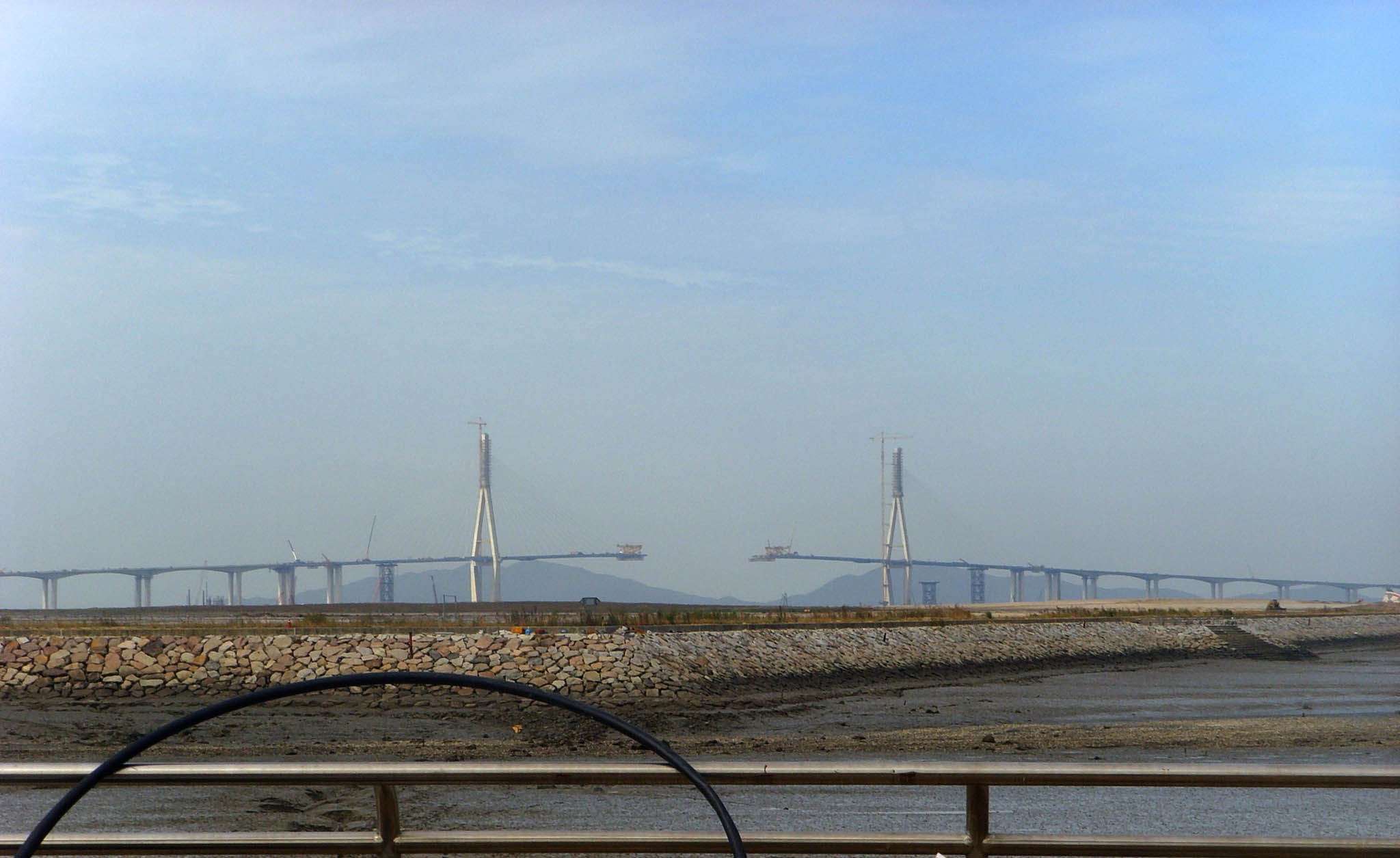 Incheon Bridge Main Tower